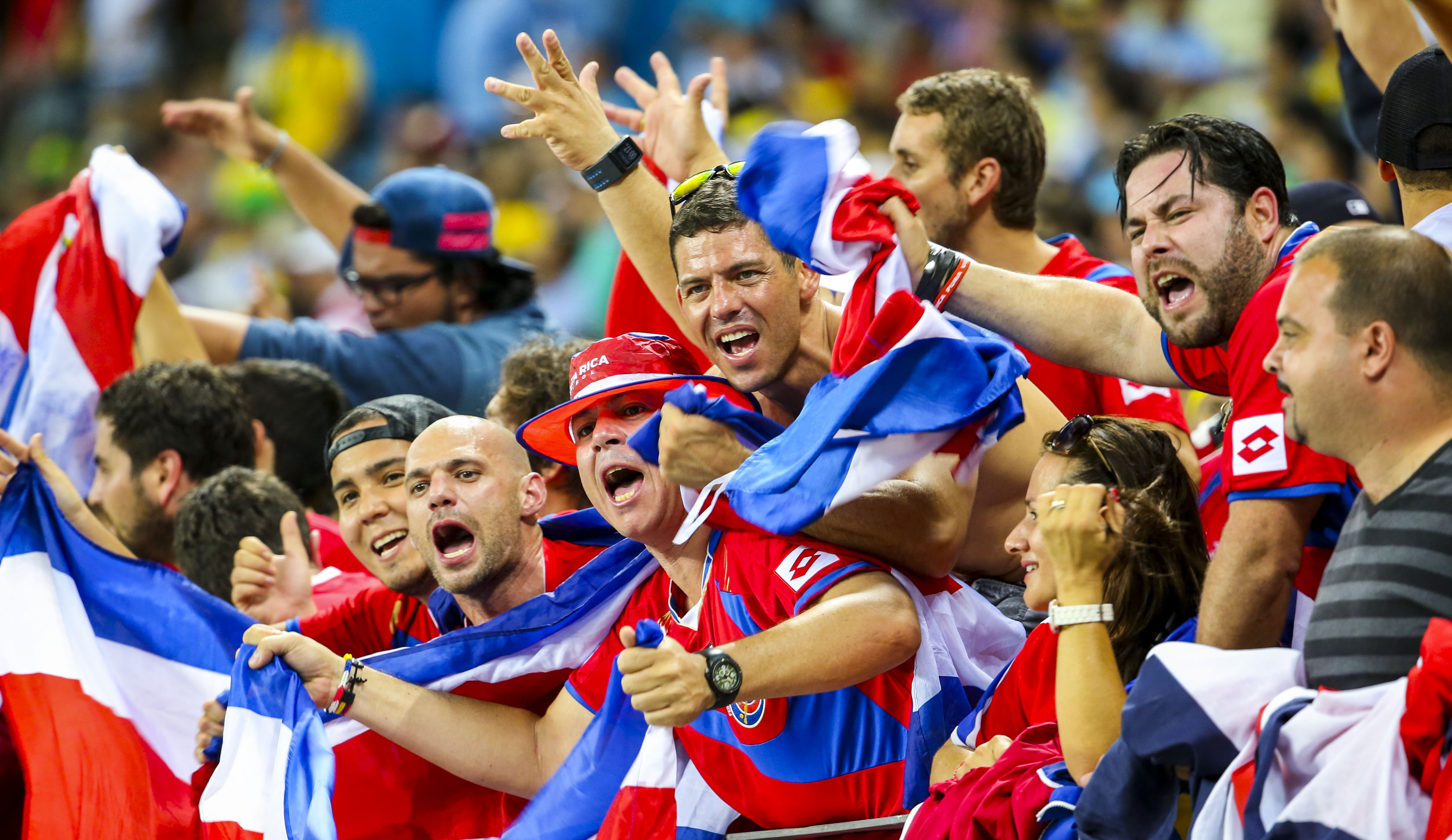 Uruguay and Costa Rica match at the FIFA World Cup 2014-06-14